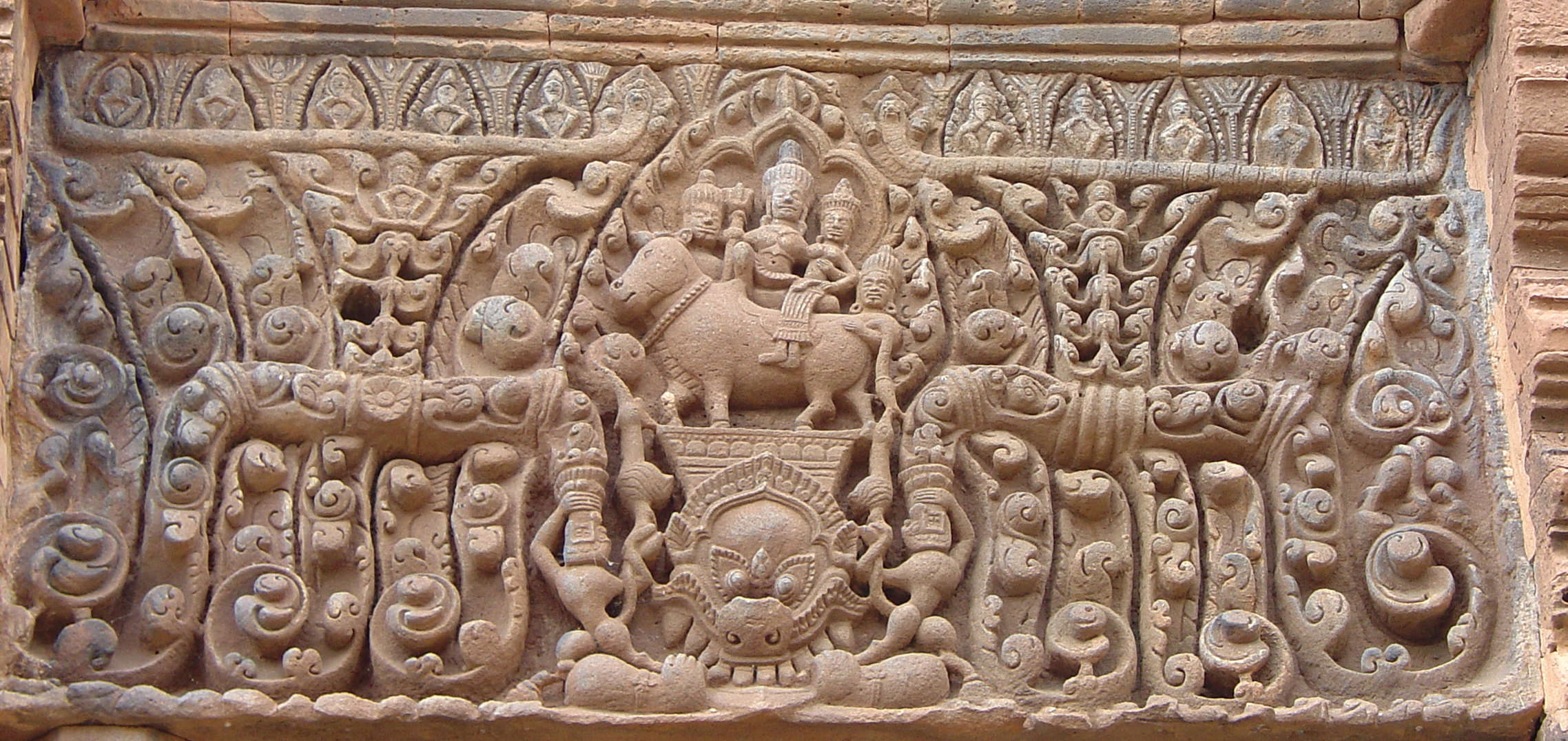 Shiva and Parvati on Nandi. East Lintel of North Tower (Front Row), Muang Tam. Baphuon style, 11th century. This carving is notable for its naivete of execution. Shiva, riding the bull Nandi, is holding a trident, with Uma (looking rather like a sock-puppet) draped in his lap. Other humans and animals fill the scene. Below, garlands issue from the mouths of animals whose rear legs are held by a kala, as at Phnom Rung.